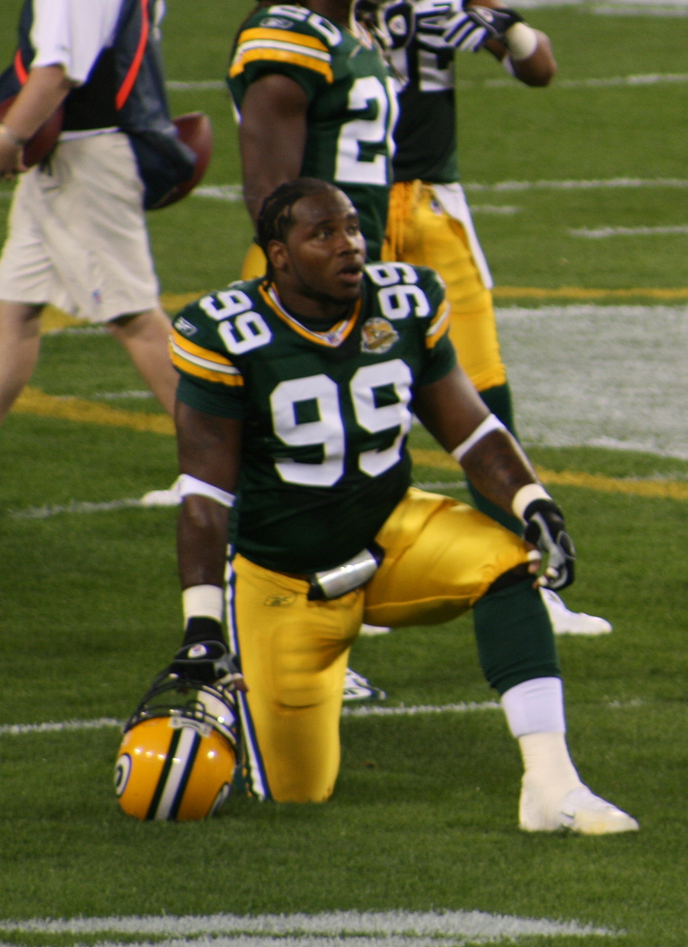 Corey Williams (football player) during pre-game warm-ups.